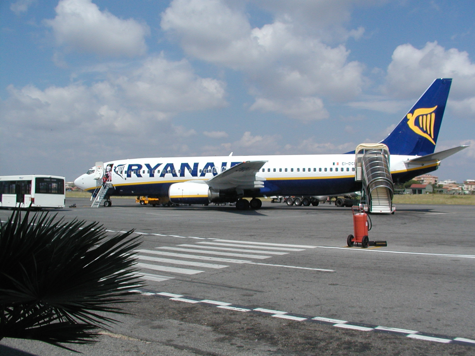 Raynair aircraft - passengers just abroading Pescara, Passagiere gehen an Bord